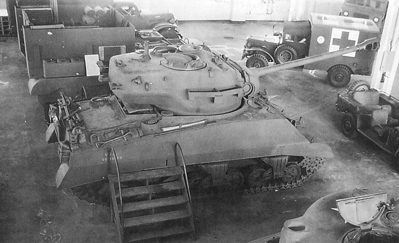 The single prototype tank built by Chrysler in the summer of 1944 that had a 90mm gun T26 turret mounted on an M4(105) chassis. The T26 and M4 tanks had the same turret ring. The project was canceled by the Ordnance Dept. after it became apparent that this tank still needed to be tested, would not likely arrive in the combat theater any sooner than the T26 tank, and would most likely interfere with the T26 production effort.